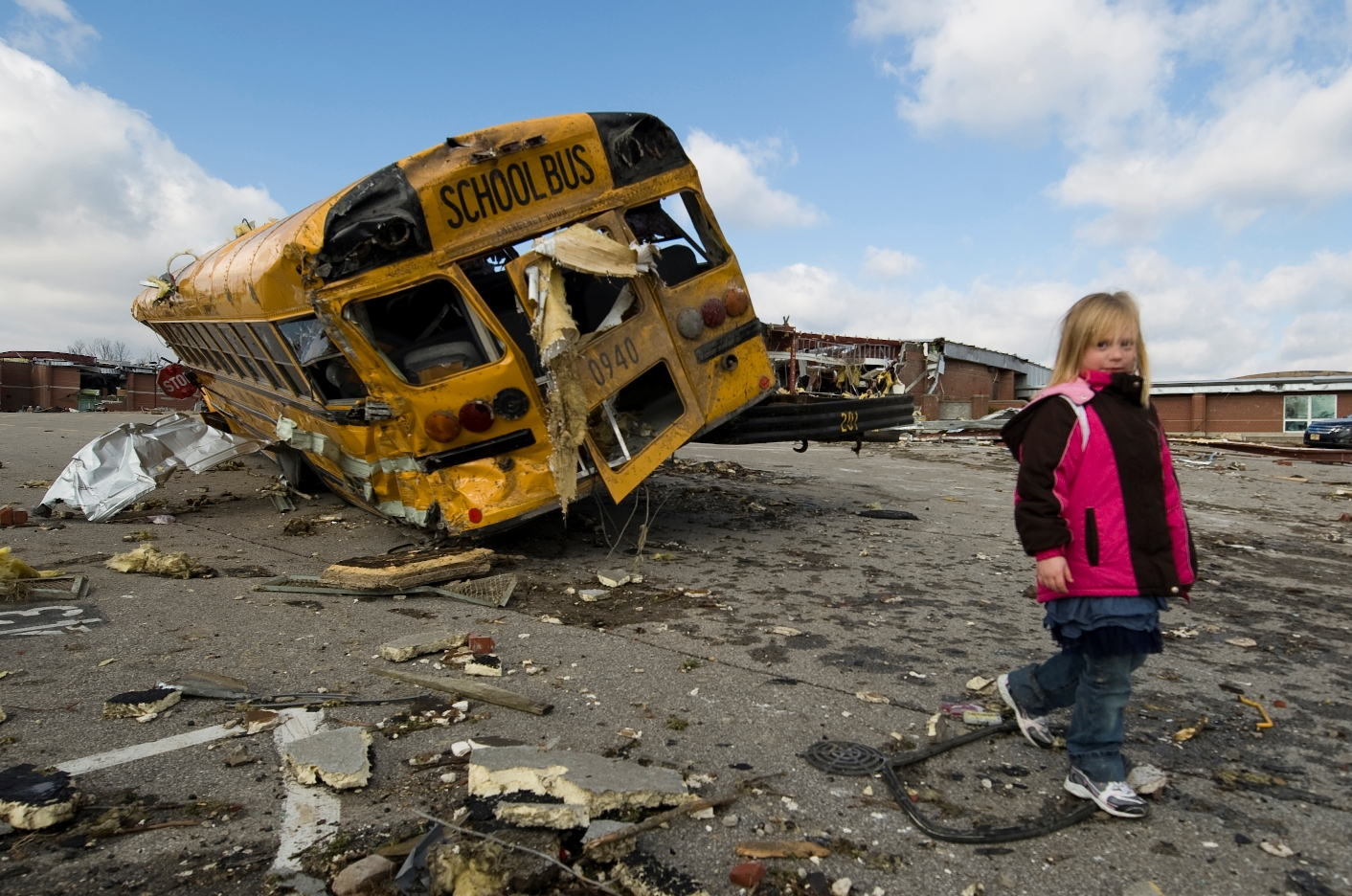 Madeline Evans of Henryville, Indiana, walks the parking lot of her elementary school, Saturday, March 3, 2012. The school and much of her town was devastated by a large tornado less the day before. The Indiana National Guard activated more than 250 Soldiers to come to the aid of the community. (Indiana National Guard photo by Sgt. John Crosby) Source: Personal Injury Lawyers in South Bend Indiana